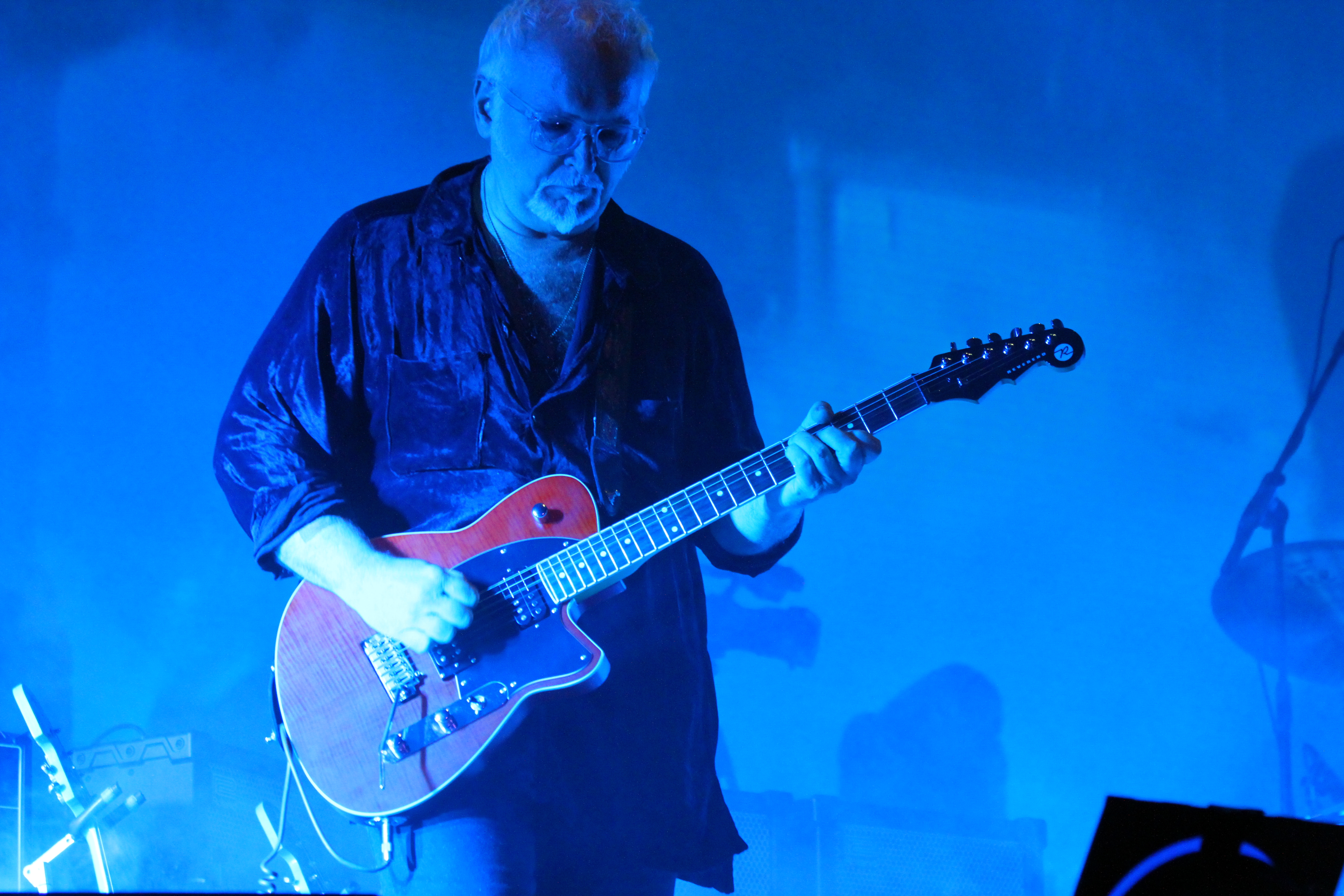 Posted via email from Globalite Magazine